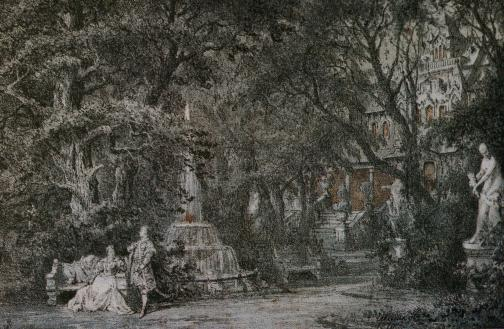 Shishkov design of Night Garden Fountain scene in Boris Godunov (1874)